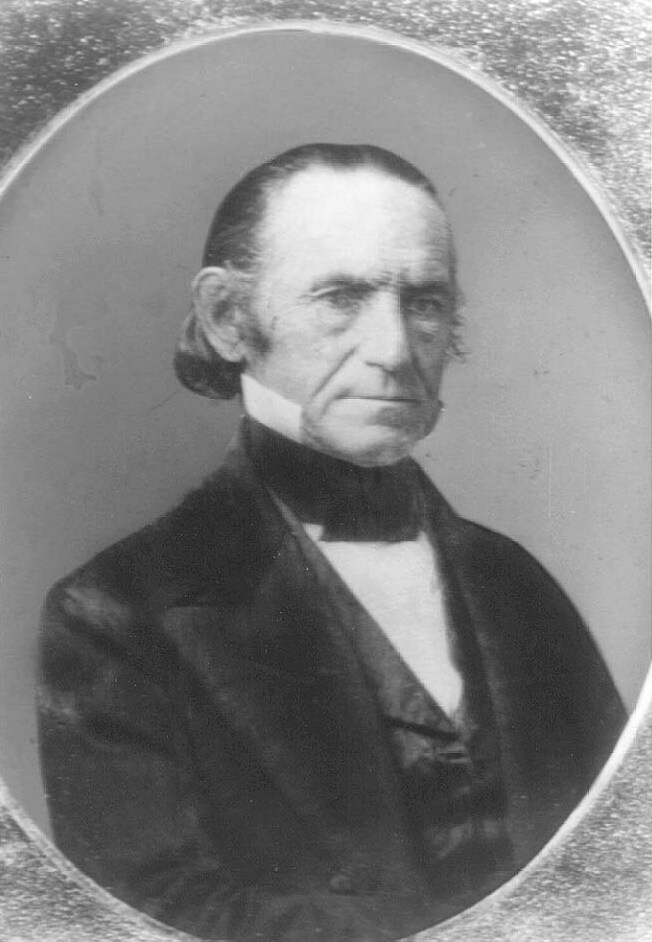 George Washington Gale believed in the manual kabor system of education, founded the Oneida Institute of Science and Industry and then [^Knox College